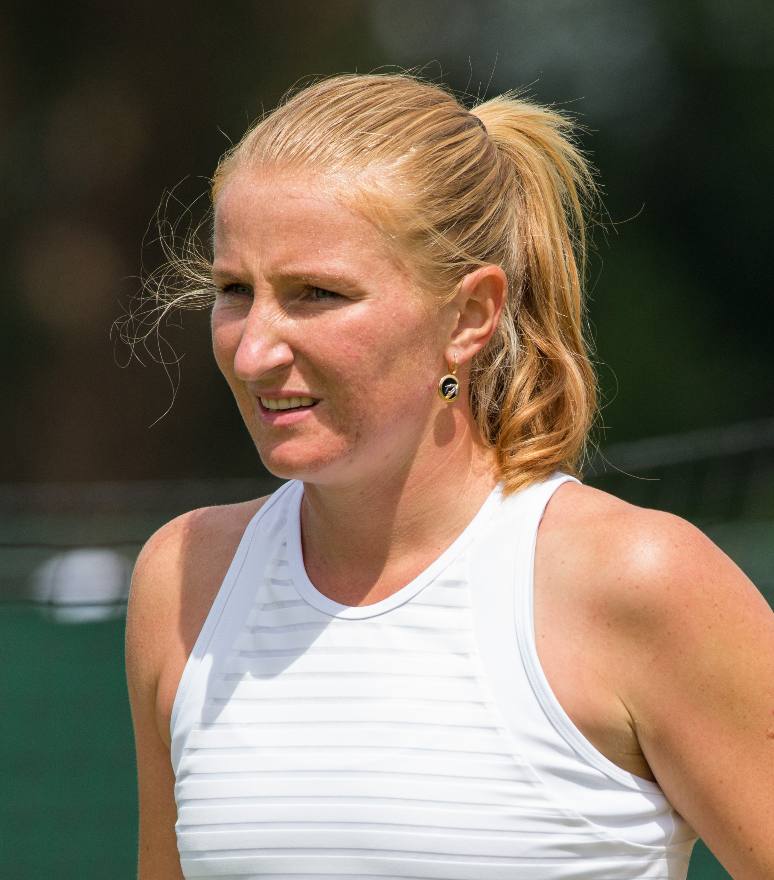 Alla Kudryavtseva competing in the first round of the 2015 Wimbledon Qualifying Tournament at the Bank of England Sports Grounds in Roehampton, England. The winners of three rounds of competition qualify for the main draw of Wimbledon the following week.